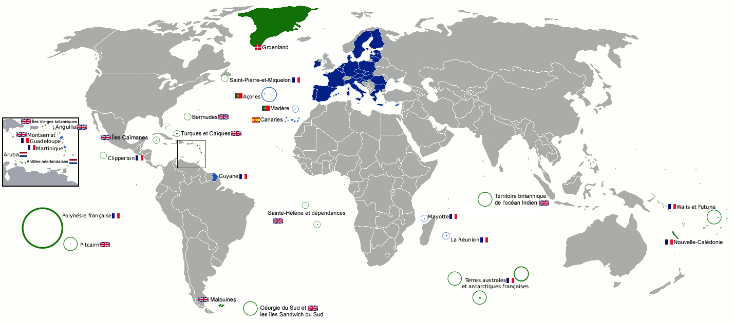 Special Member State territories and the European Union European Union Outermost regions (OMR) Overseas countries and territories (OCT)